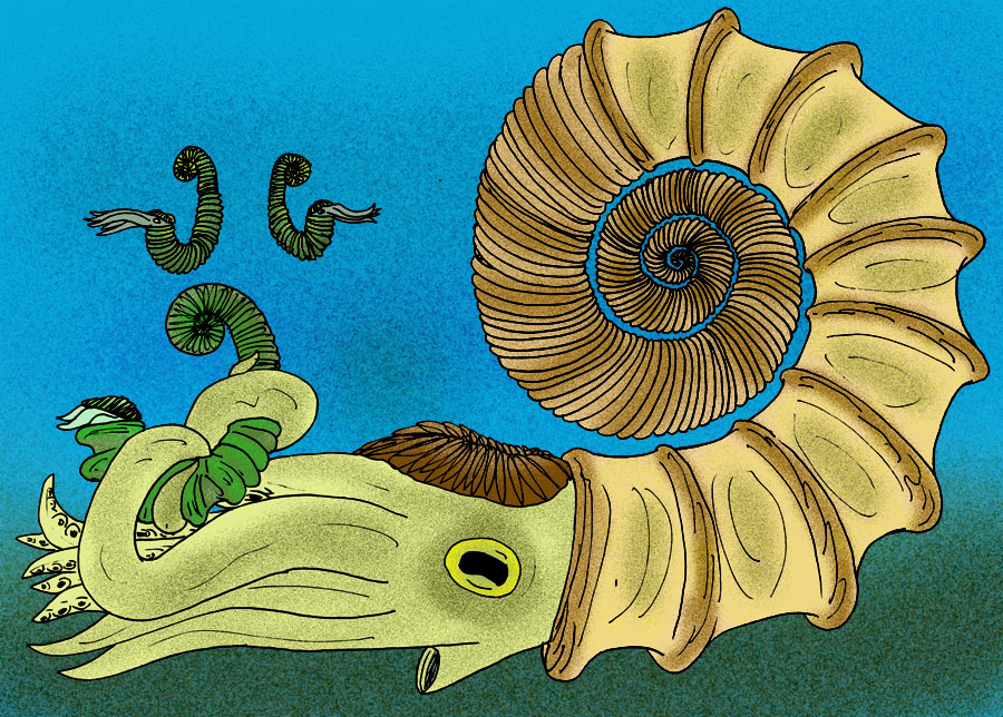 Various ammonites from Lower Cretaceous Australia. The largest is Tropaeum imperator, which had a shell about 1 meter in diameter. In its clutches is Australiceras jacki. A pair of Labeceras bryani swim by. (C) Stanton F. Fink